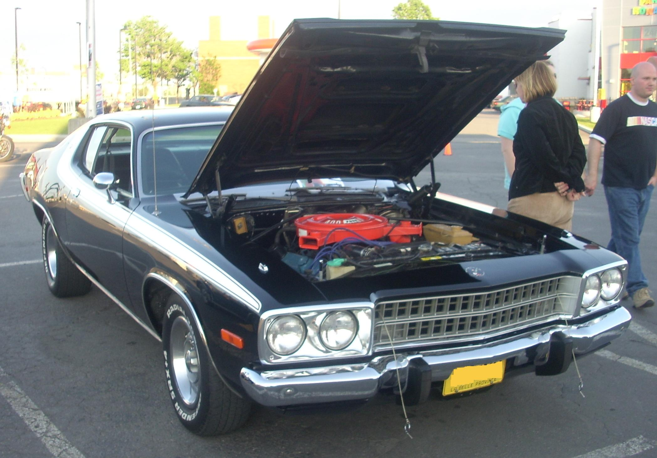 1974 Plymouth Road Runner photographed in Montreal, Quebec, Canada at Gibeau Orange Julep.